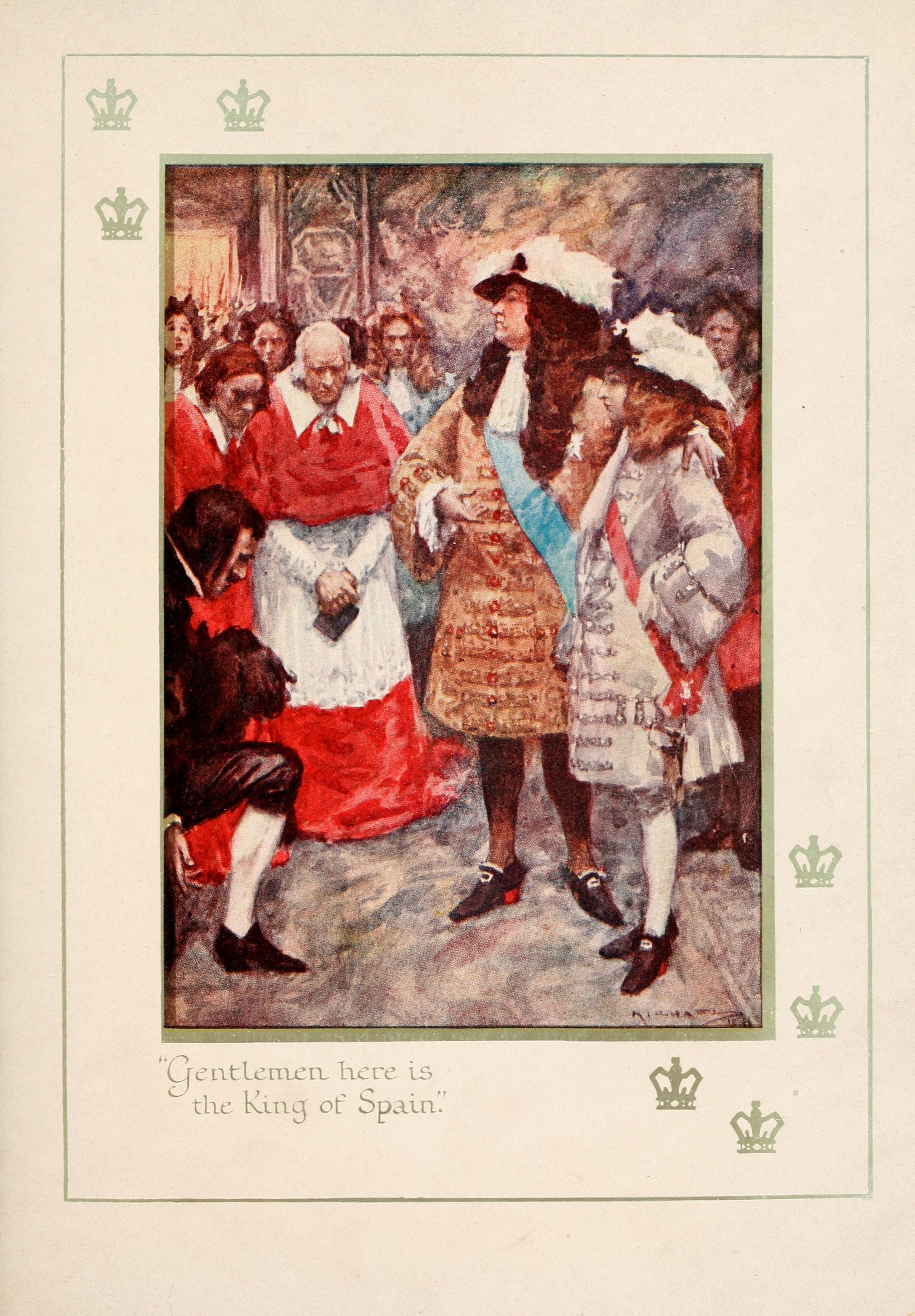 Published [c1912] Topics France -- History Publisher New York : Hodder & Stoughton, George H. Doran company Pages 622 Possible copyright status NOT_IN_COPYRIGHT Language English Call number 564148 Digitizing sponsor MSN Book contributor New York Public Library Collection newyorkpubliclibrary; americana Full catalog record MARCXML [Open Library icon]This book has an editable web page on Open Library.